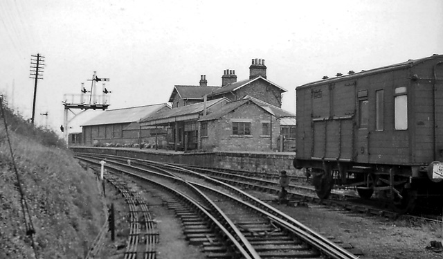 Bedale Station (disused). View SE, towards Northallerton; Northallerton - Hawes (Wensleydale) line. Station and line closed to passengers 26/4/54 (goods 4/9/67). Line closed to goods Redmire - Hawes 27/9/64, Northallerton - Redmire 12/92. Reopened by Wensleydale Railway as a Heritage Railway, Leeming Bar - Leyburn 4/7/03, to Redmire 23/12/04.